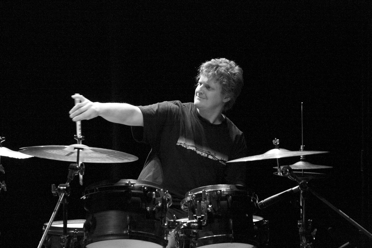 American drummer Jim Black, performing with the Ellery Eskelin trio, at La Dynamo, Pantin (France)